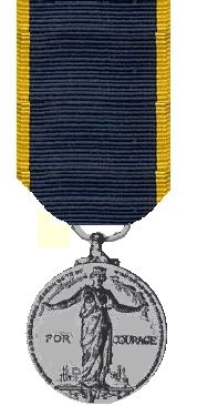 Edward Medaille in zilver